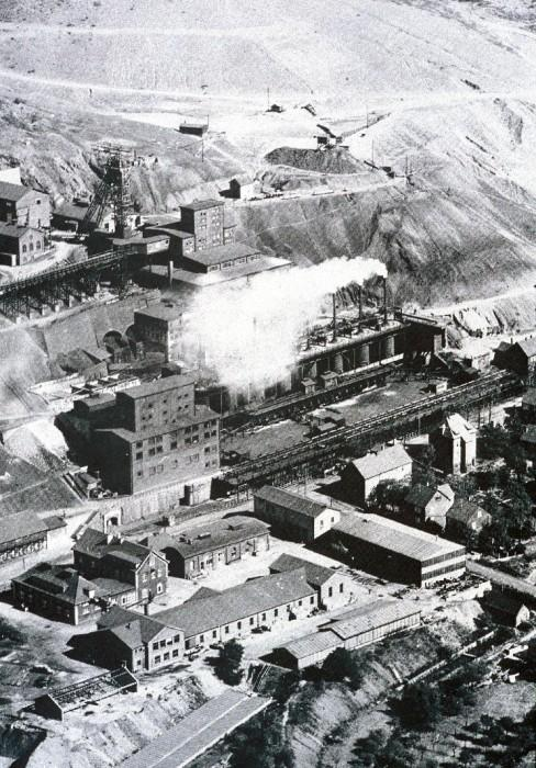 Füsseberg mine in Biersdorf. Photo taken approx. 1950-1960.